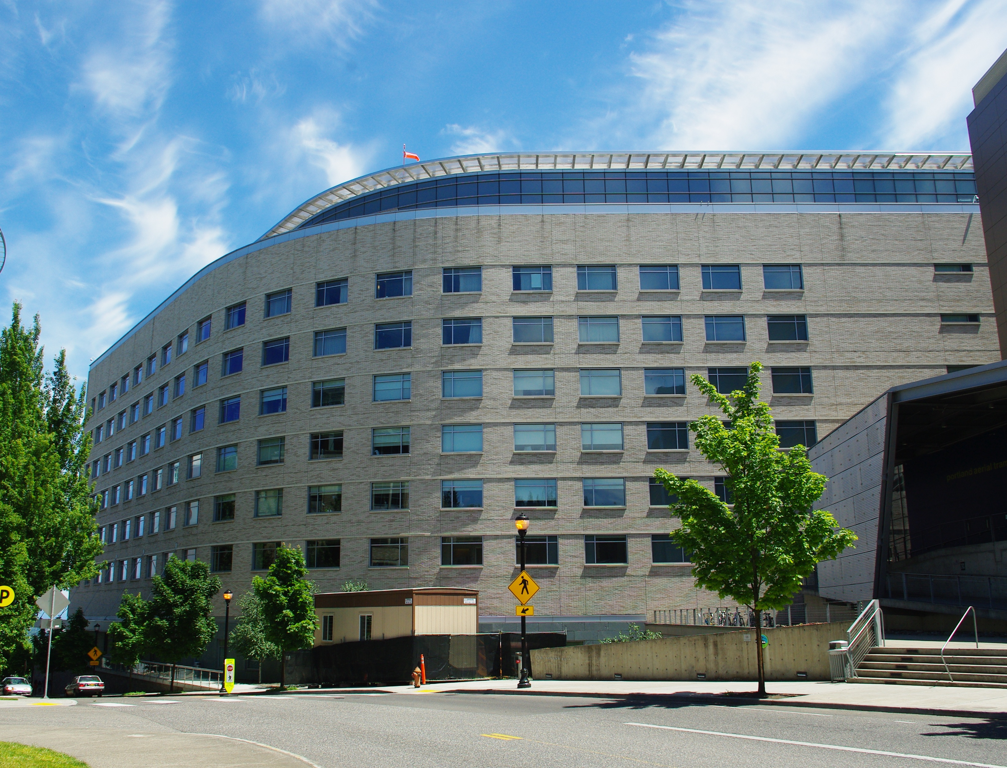 Kohler Pavilion wing of the OHSU Hospital at Oregon Health & Science University, in Portland, Oregon.